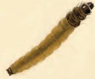 Stainton’s Natural History of the Tineina (1855–1873): Coleophora ditella